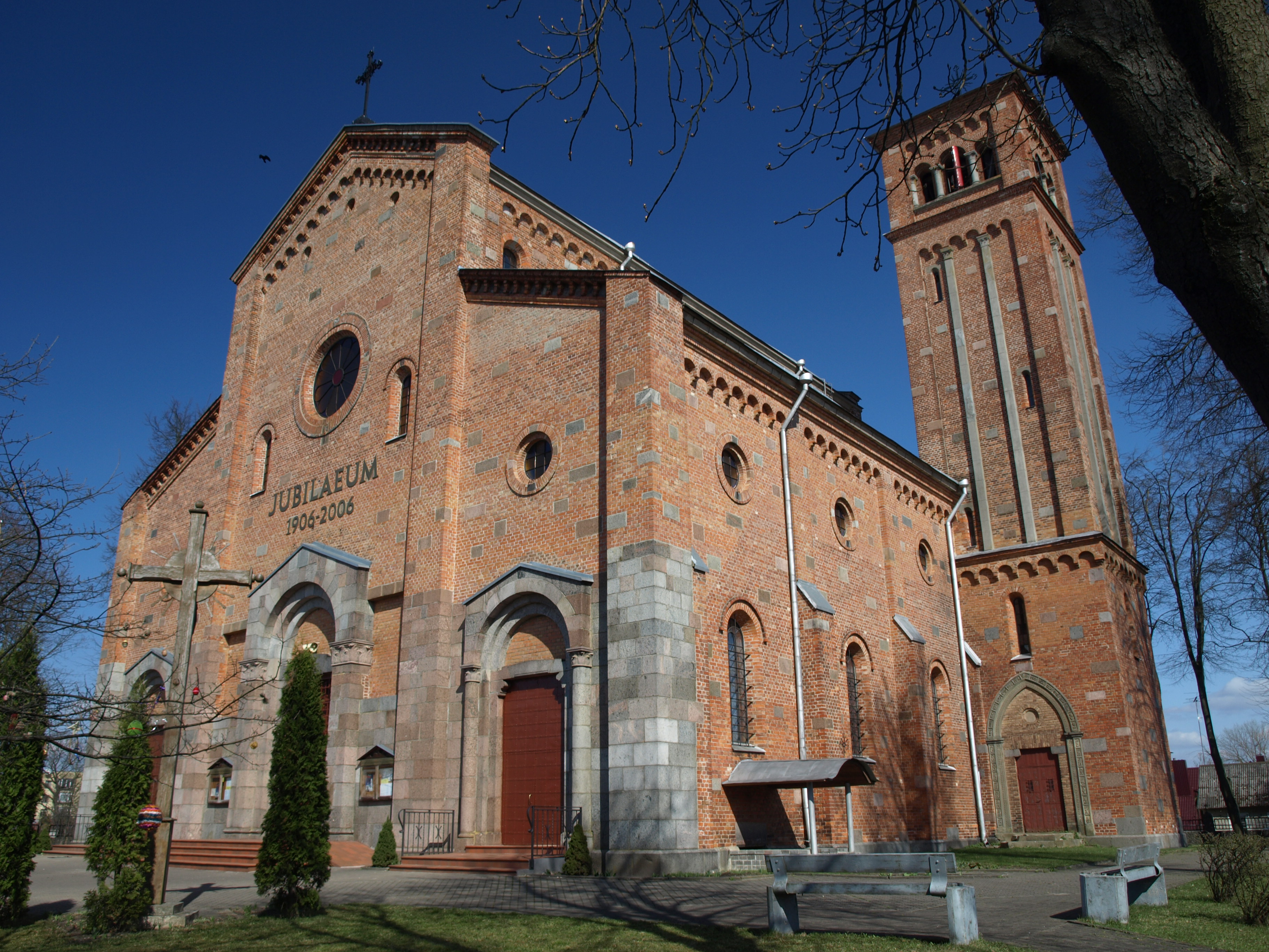 Lentvaris church, Trakai district, Lithuania